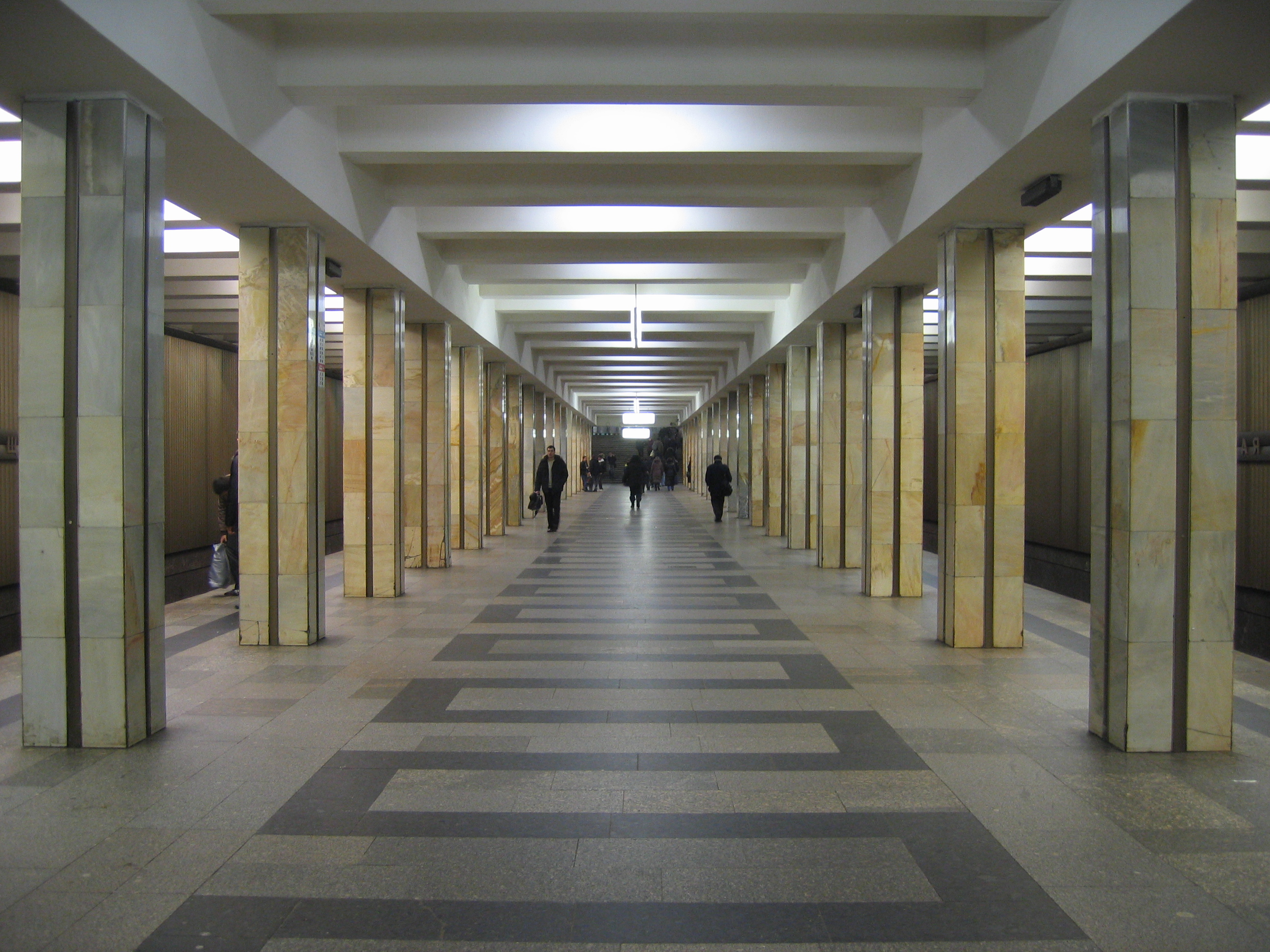 Station Shchukinskaya of the Moscow Metro